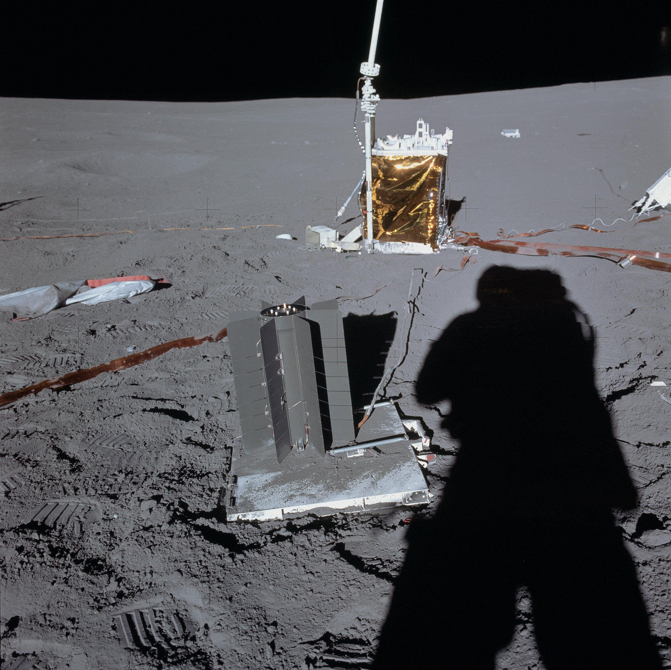 The RTG of Apollo 14's ALSEP. Original caption: MET 117:17:41, Down-Sun picture of the RTG with the Central Station in the background. The fins on the RTG provide radiative cooling. Note the relatively large amount of dust that has been kicked on to the RTG. The smaller object in the background is the LRRR. The mortar pack is at the right edge.